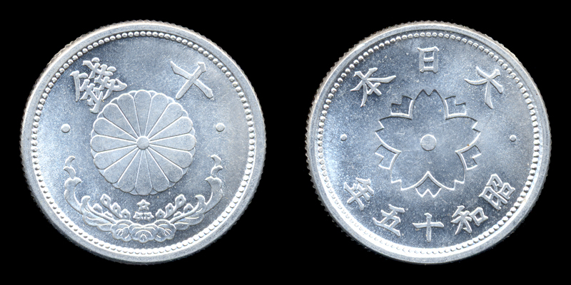 10sen-S15